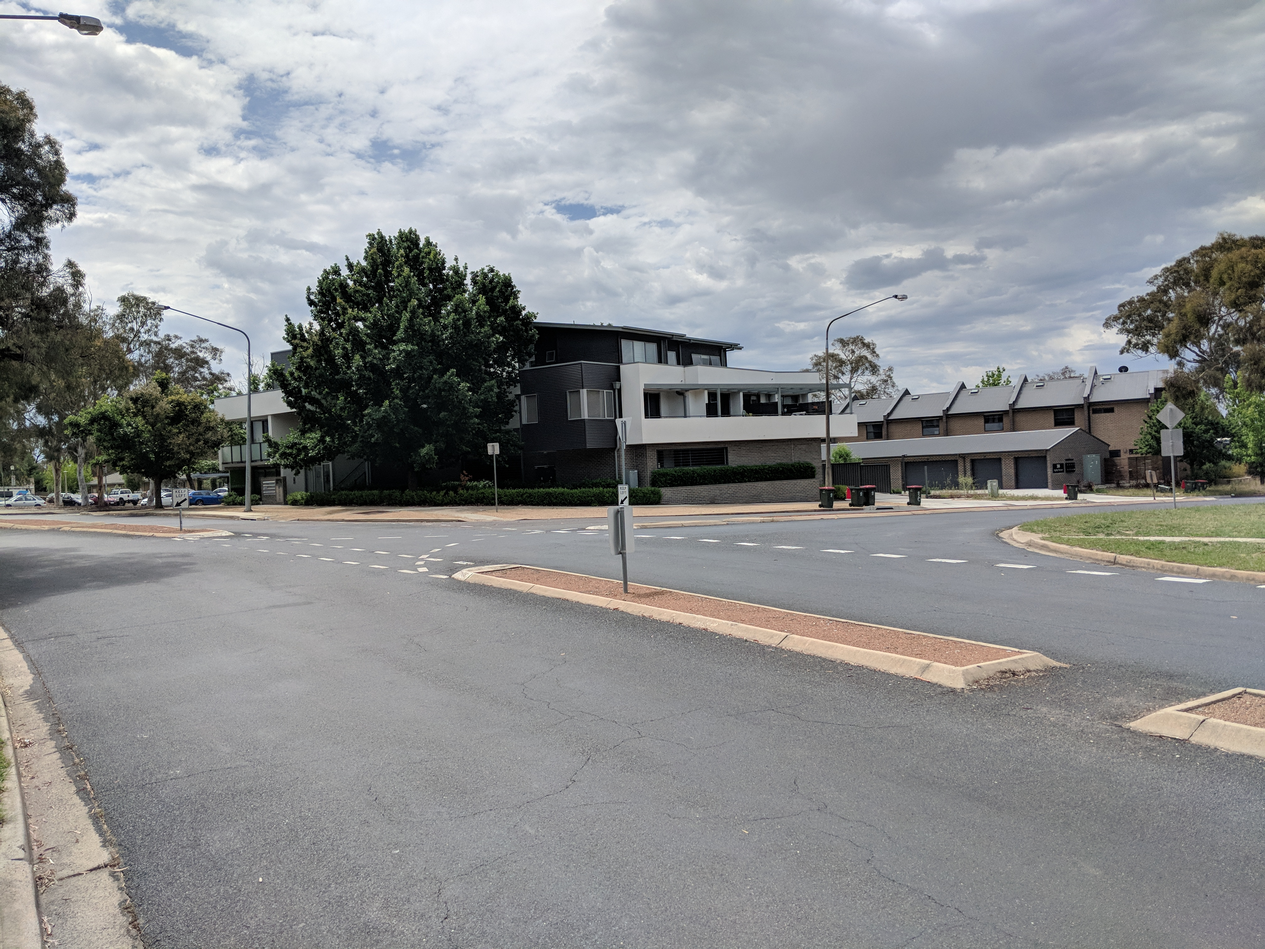 New apartments near Page shops, Canberra